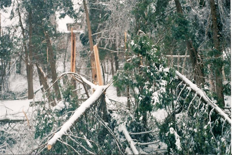 Absolute toothpicks of mature pine trees on the ridge above Meech Lake (opposite that first beach area)